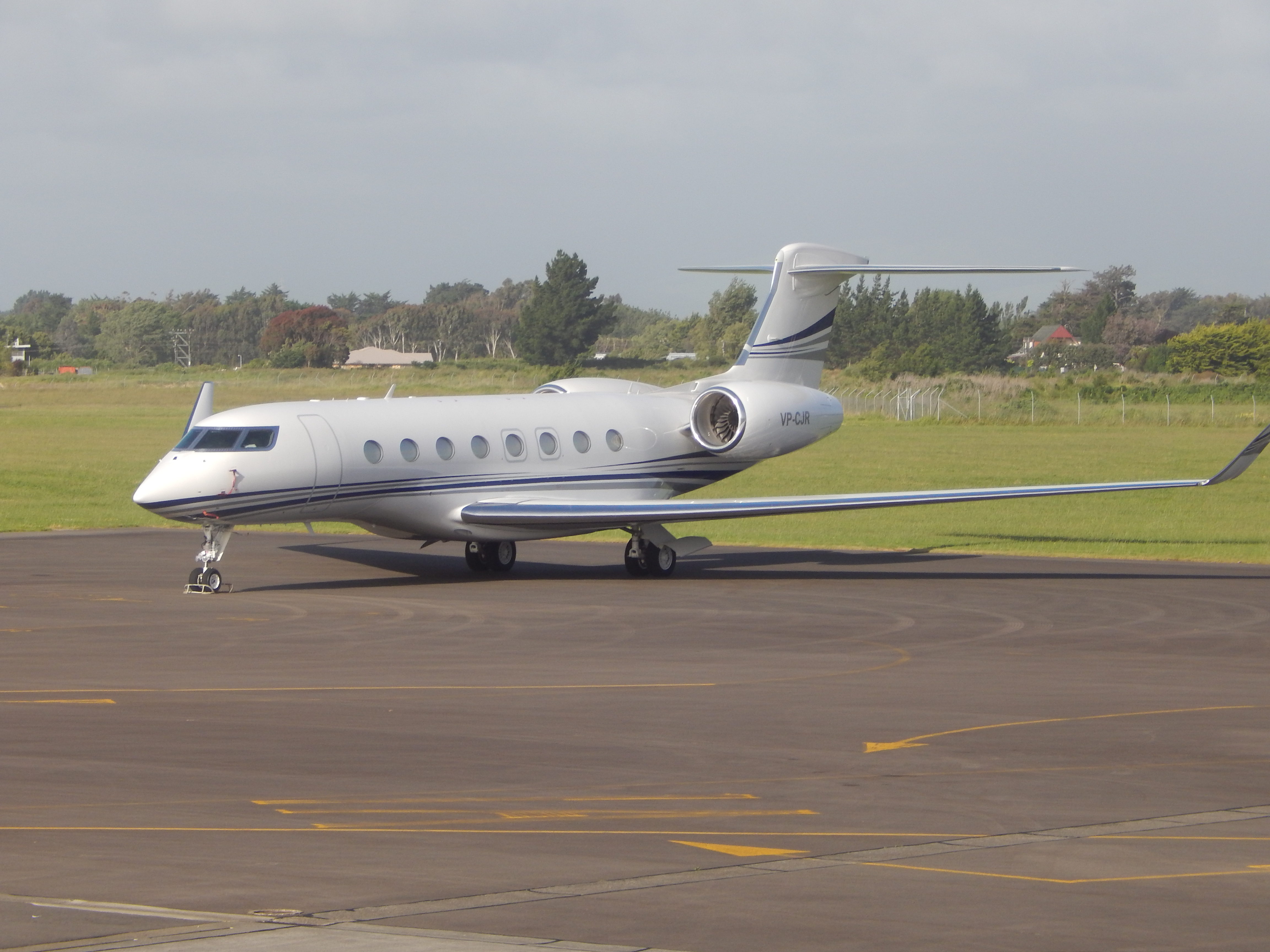 A long term parked biz jet. Unusual visitor to a regional airport like Palmerston North.